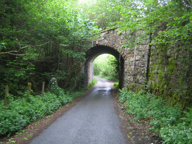 Bovey Tracey: Lower Knowle Road This is an intriguing feature on the Ordnance Survey 1:25,000 scale mapping. The acutely skewed bridge used to carry the now defunct Newton Abbott to Moretonhampstead branch line railway over Lower Knowle Road here, but the road runs parallel to the railway for some distance either side of the bridge, and the skew angle is such that the bridge is quite long, giving the effect on the map that the road stops either side of the railway embankment, with the ends some distance apart, and the stranger does not know whether these are two dead end lanes at either side!